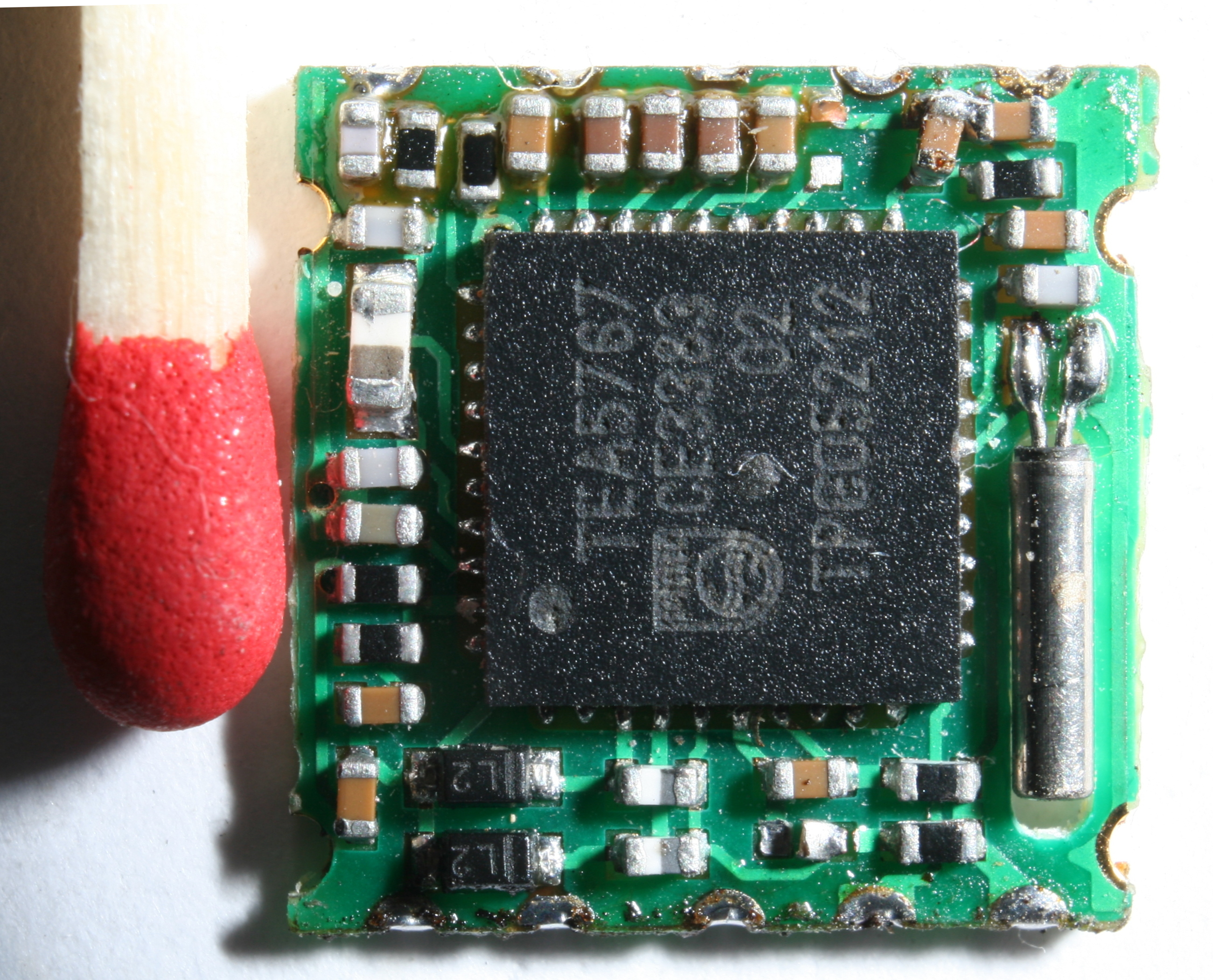 Miniature FM radio module from a portable MP3 player with radio